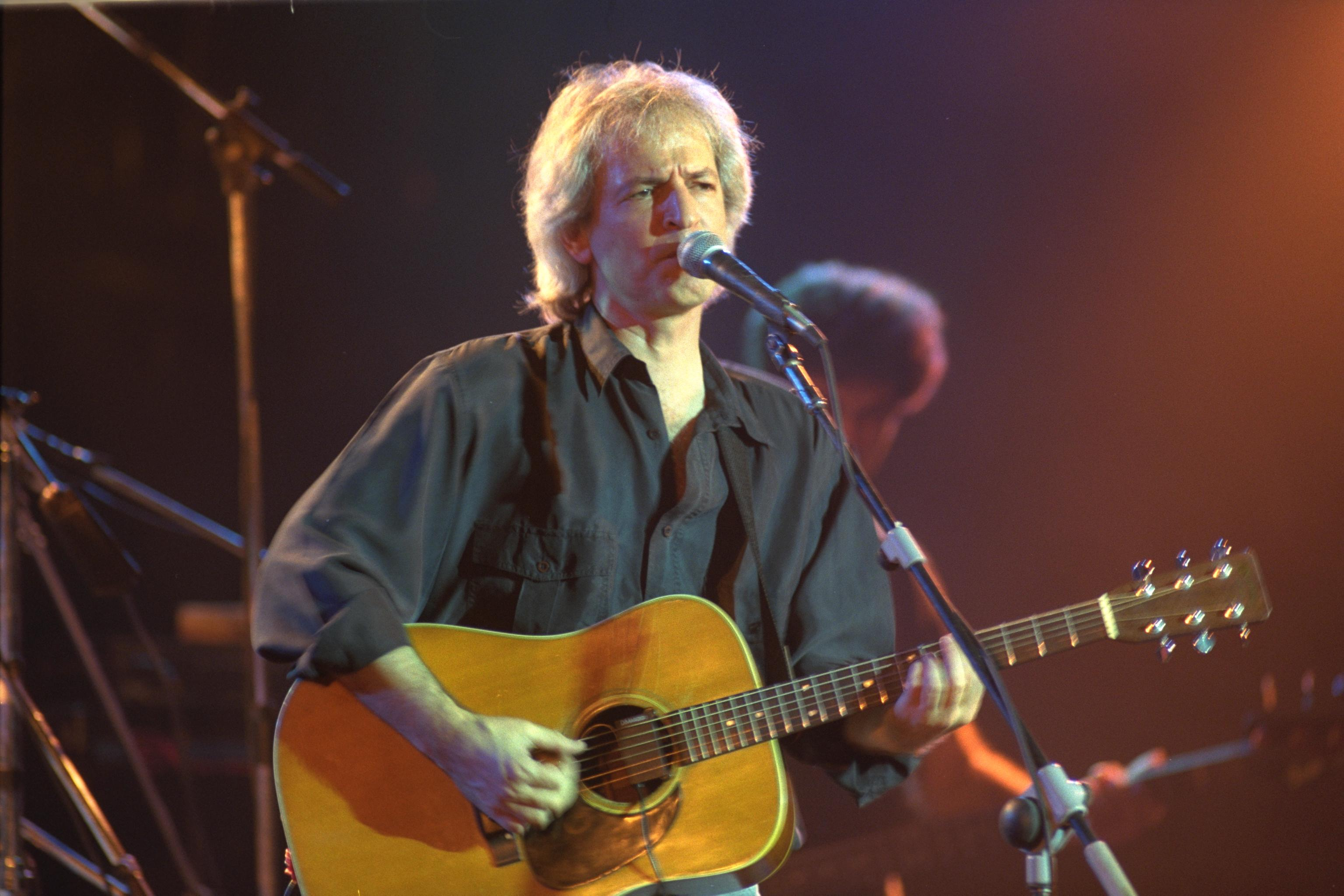 Singer Shalom Hanoch performing at a rock festival in the Red Sea.. שלמה חנוך מופיע בפסטיבל ערד Photo: KOREN ZIV.